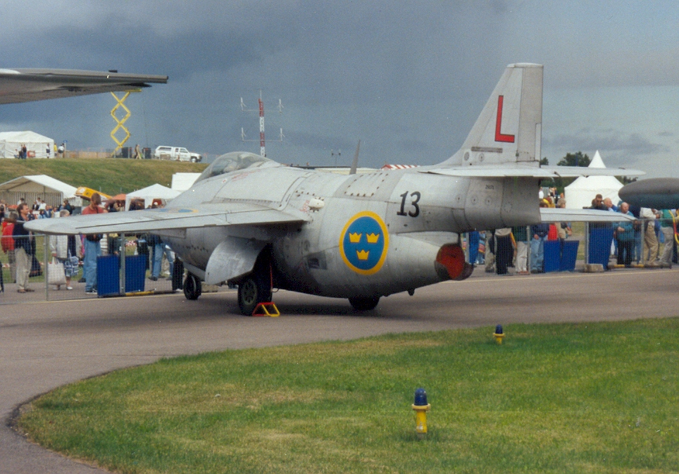 Saab J 29A "Tunnan"